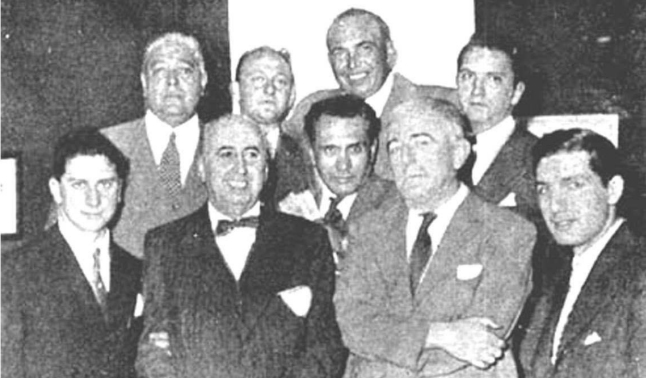 Comic artists from Argentina (from left to right): Colonese, Rechain, Ángel Borisoff, Ferroni, Videla, Ramón Columba, Valdivia, Eduardo Álvarez and Siulnas.